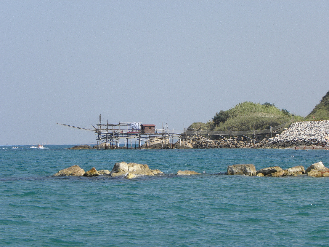 Contrada Foce